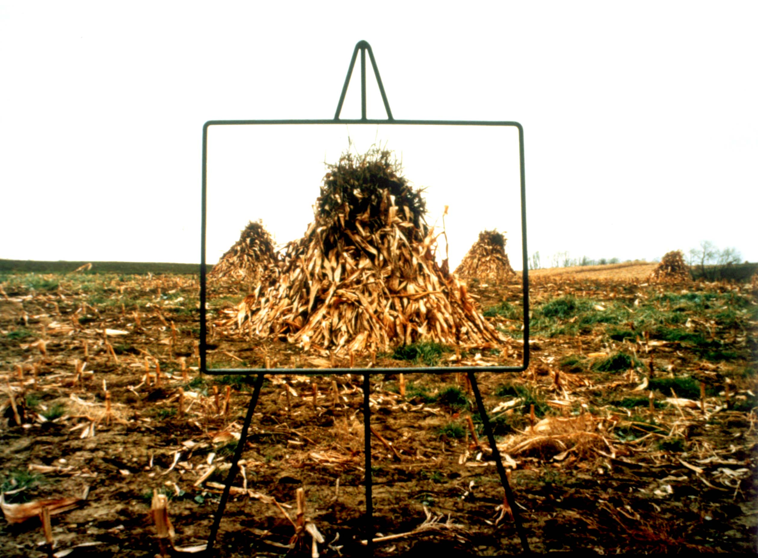 C-Print, 24"h x36"w